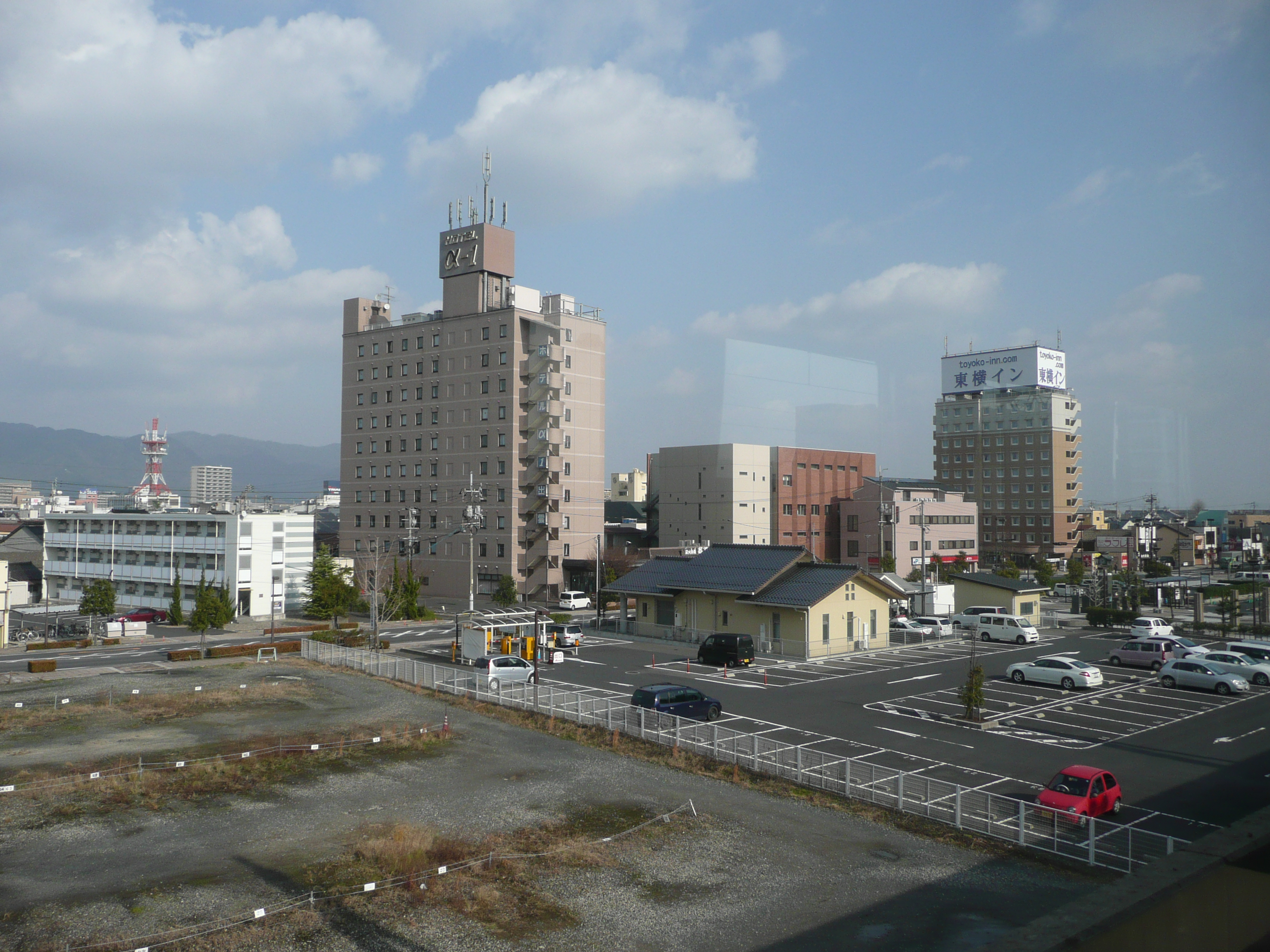 出雲市駅北口の駅前